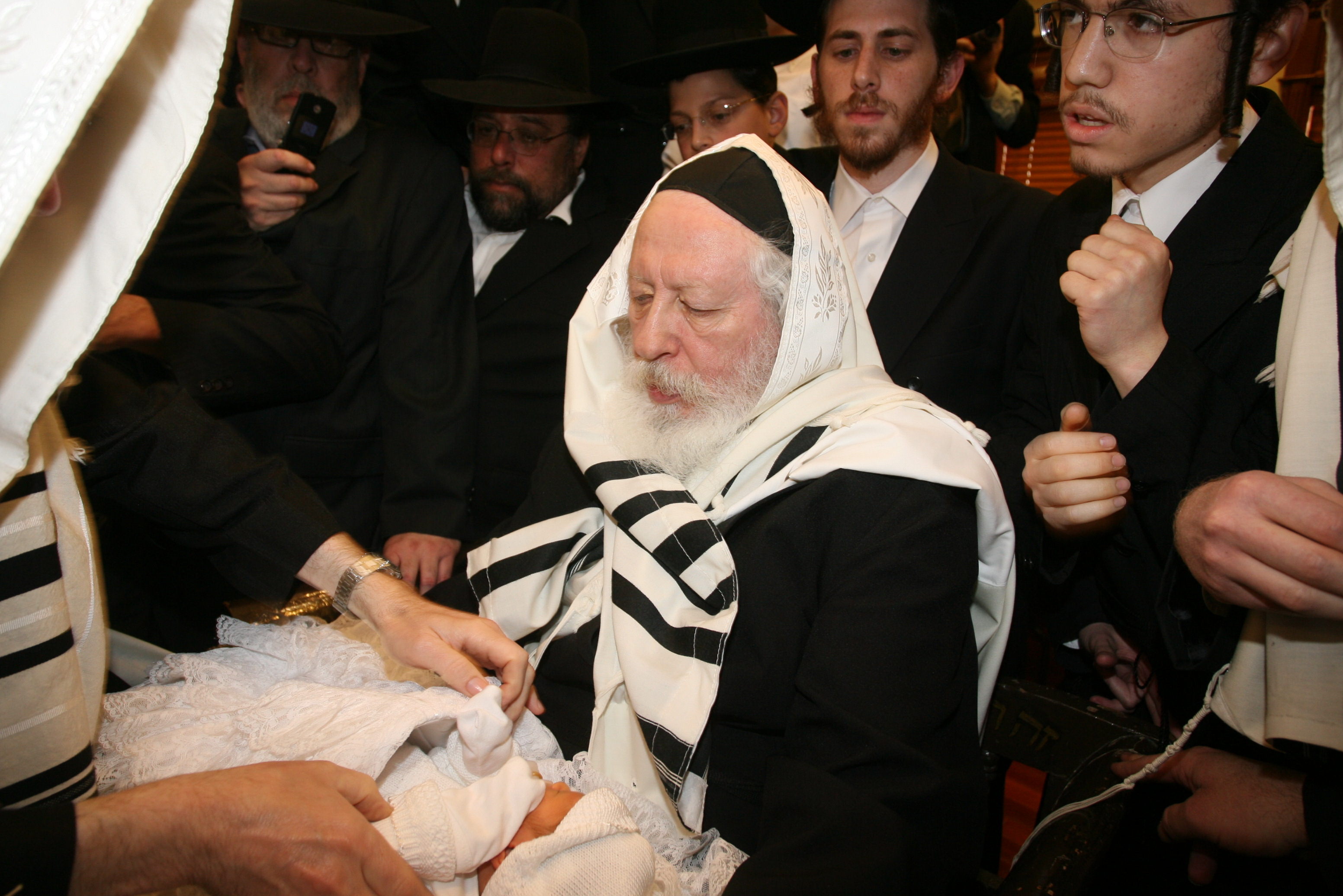 Gerer Rebbe Yaakov Aryeh Alter Shlit'a